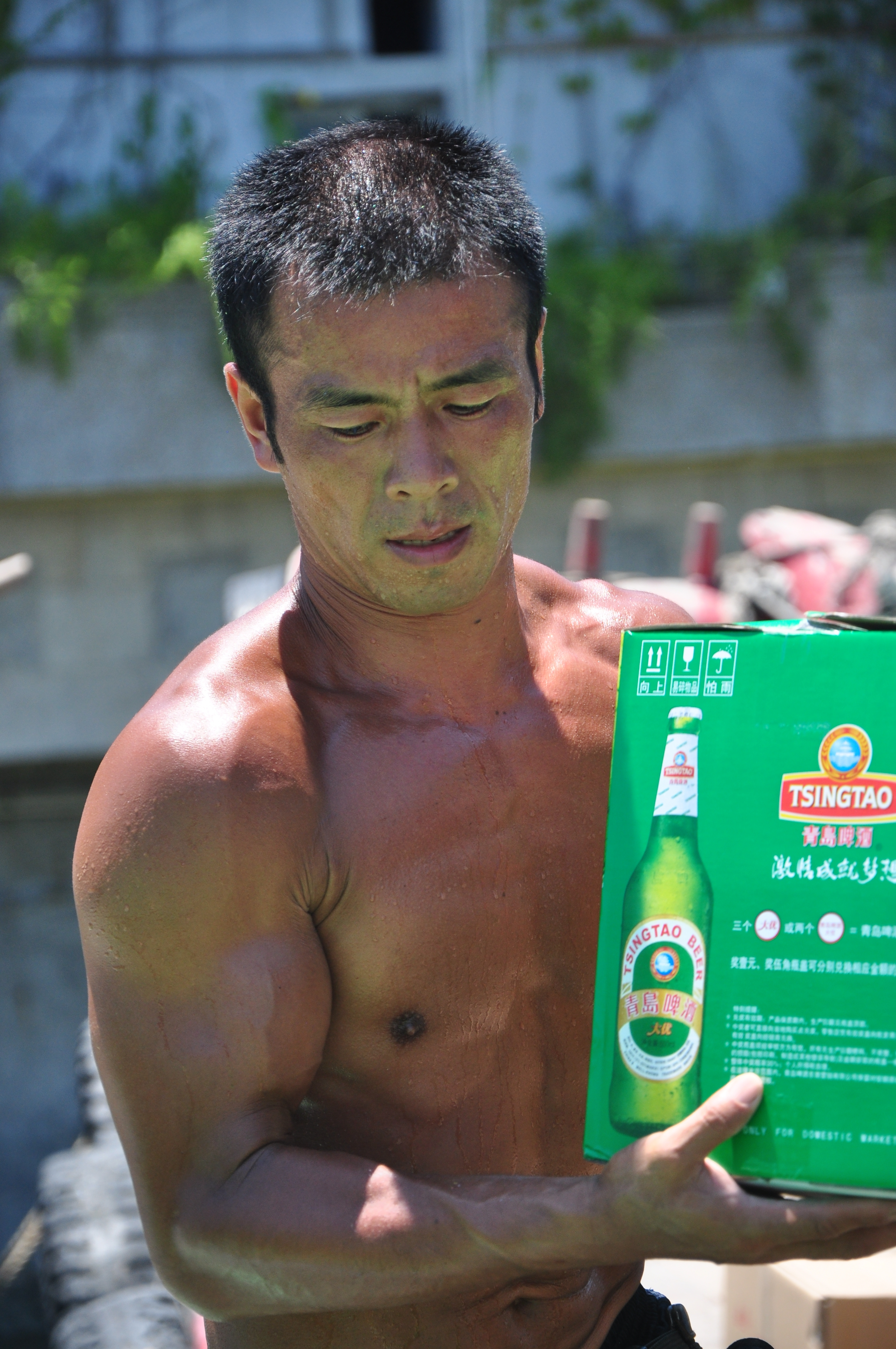 Worker in China